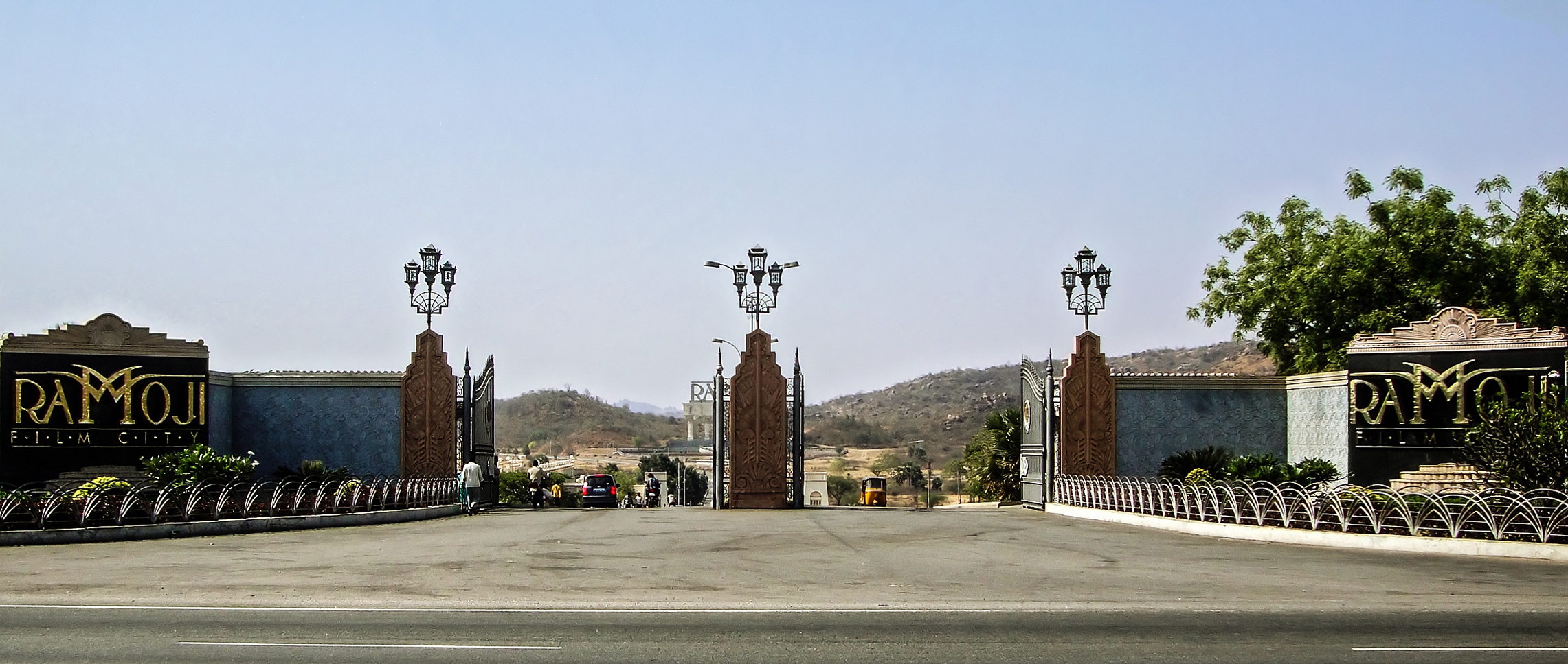 Entrance of Ramoji Film City, Hyderabad, India